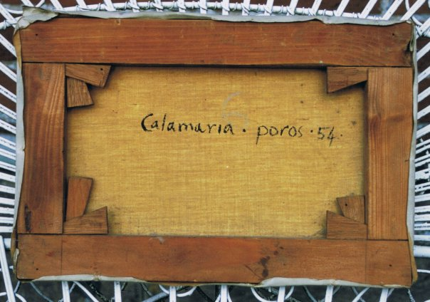 My photo (R. de SalisRodolph (talk) 00:24, 18 February 2014 (UTC)) of the back of John Craxton's Calamaria, Poros, 1954.